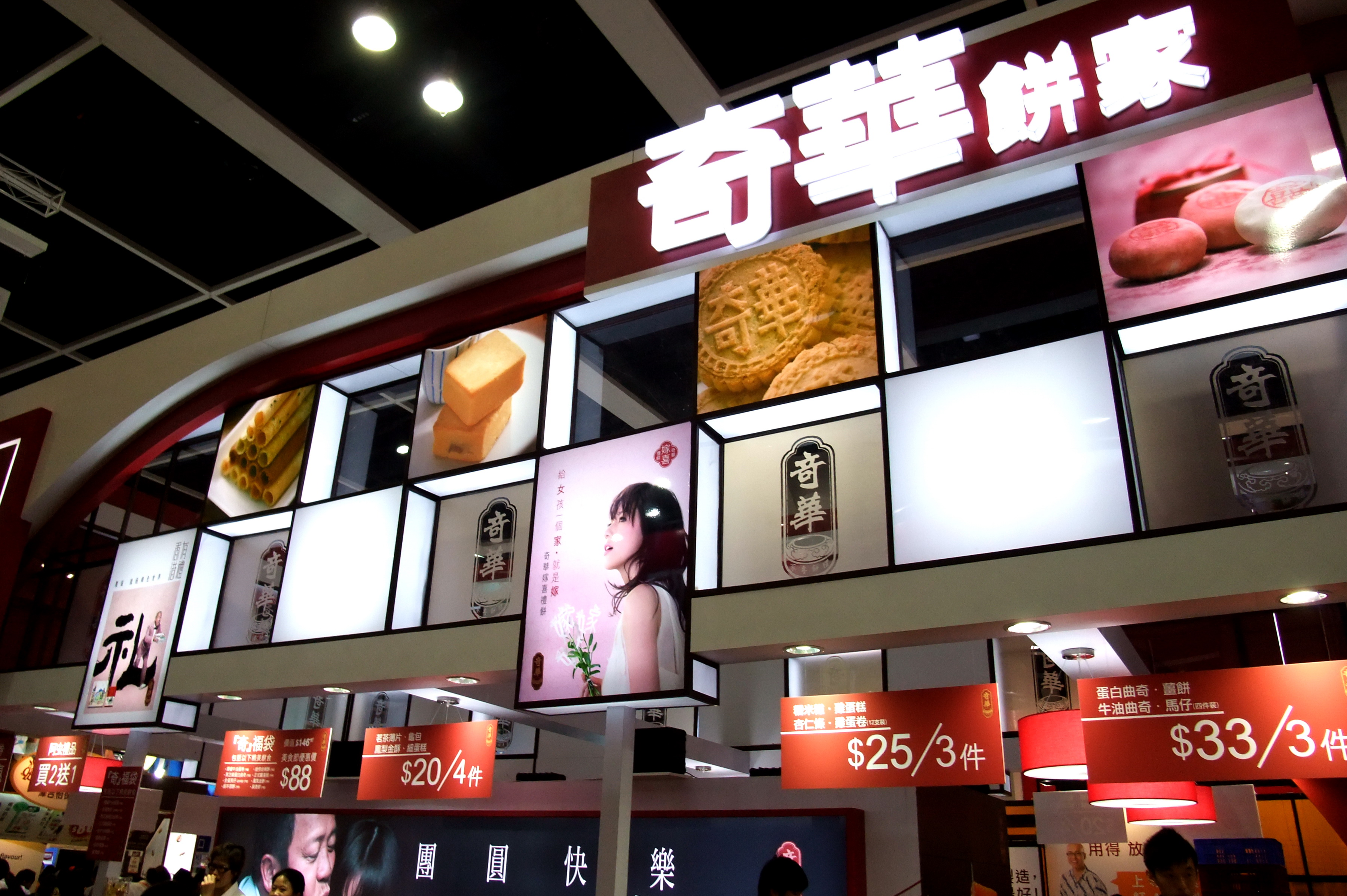 A Kee Wah Bakery booth at the HKTDC Food Expo 2011.